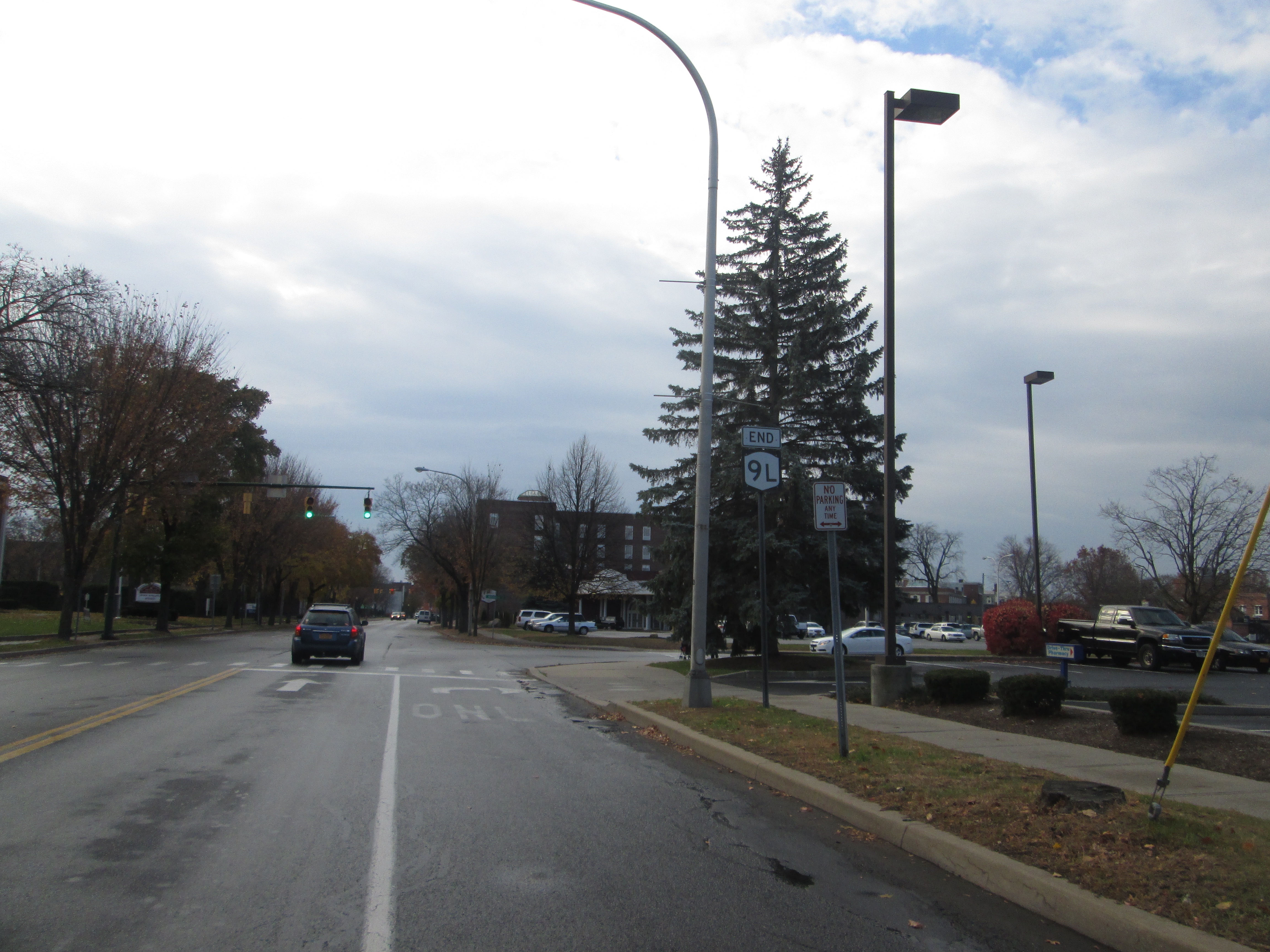 New York State Route 9L signed as ending several blocks north of its actual terminus in Glens Falls, New York.